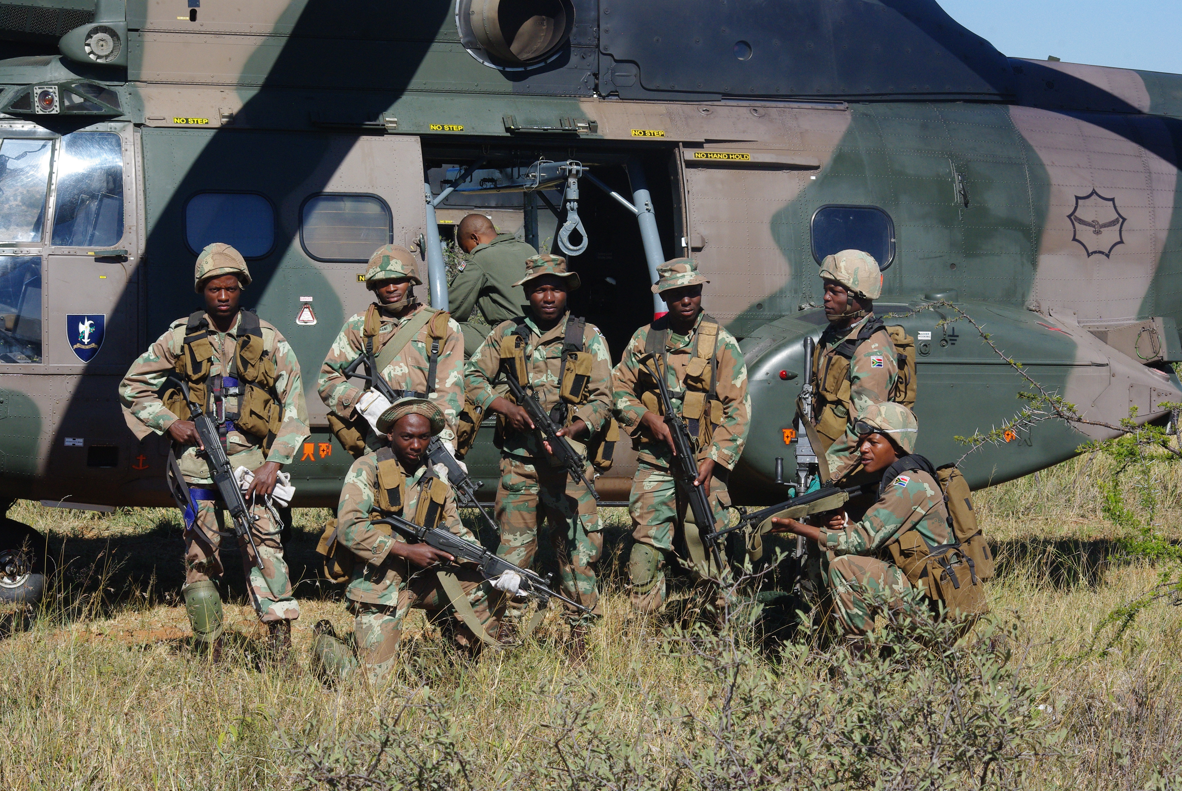 Roodewal Weapons Range 09/05/13 Roodewal Weapons Range